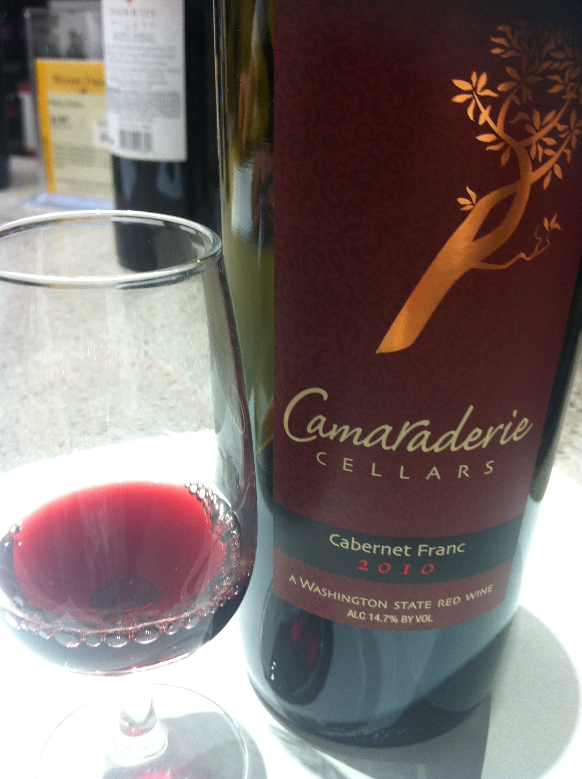 Cabernet Franc wine from Washington State